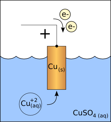 Copper cathode